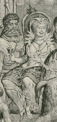 The Canterbury Pilgrims Copper engraving printed on paper. Approximately 1 × 3 ft. Multiple impressions in various collections; this impression is owned by The McCormick Library of Special Collections at Northwestern University, Illinois (USA).